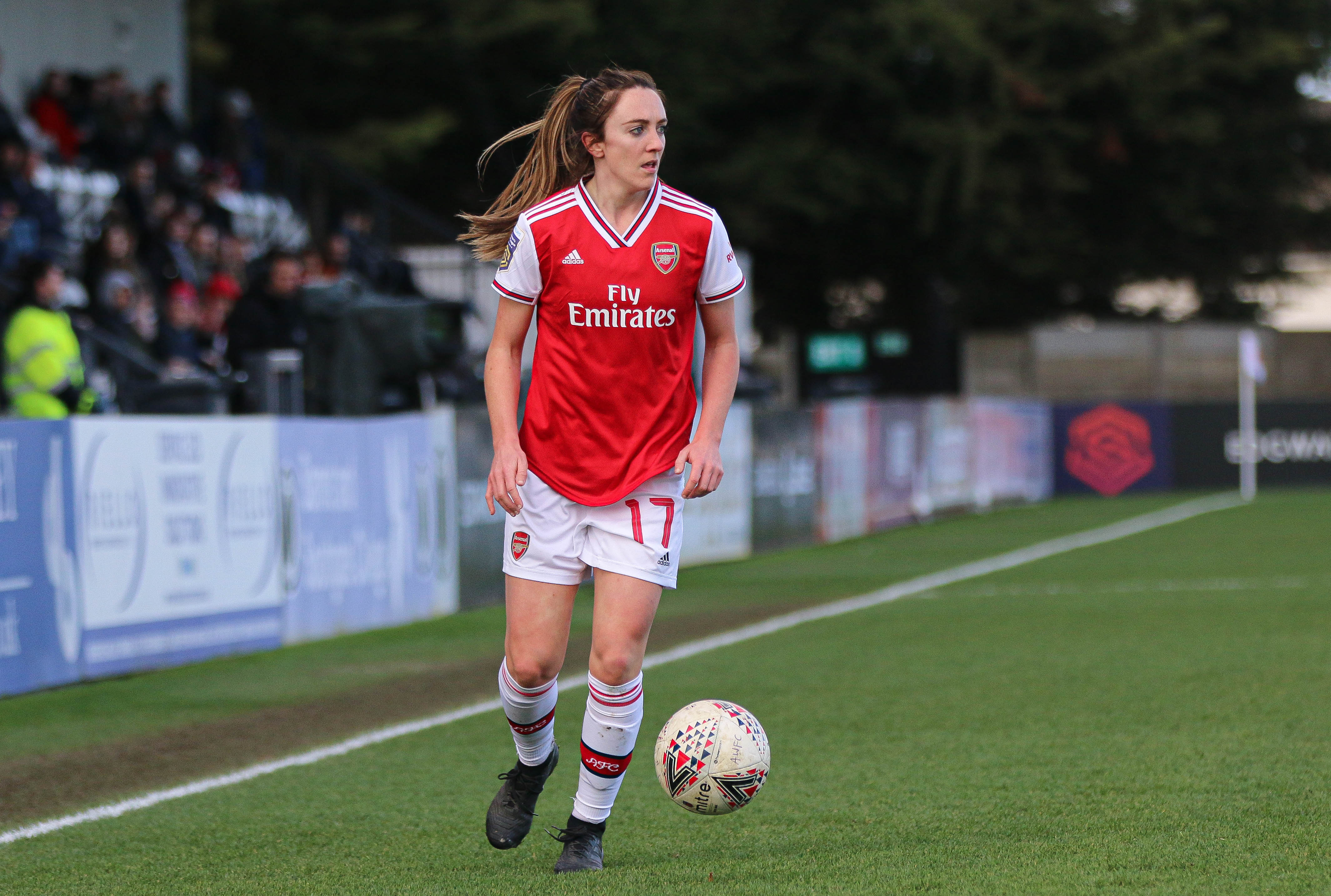 Arsenal WFC – Lewes L.F.C., 23 February 2020